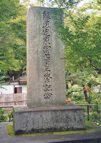 Monument to Fujiwara no Teika, compiler of the Hyakunin Isshu anthology of Japanese waka poems Ogura, Kyoto, Japan I took this photograph and contribute it to the public domain. (I copied this from the Wikipedia image page; the original was uploaded by Fg2).